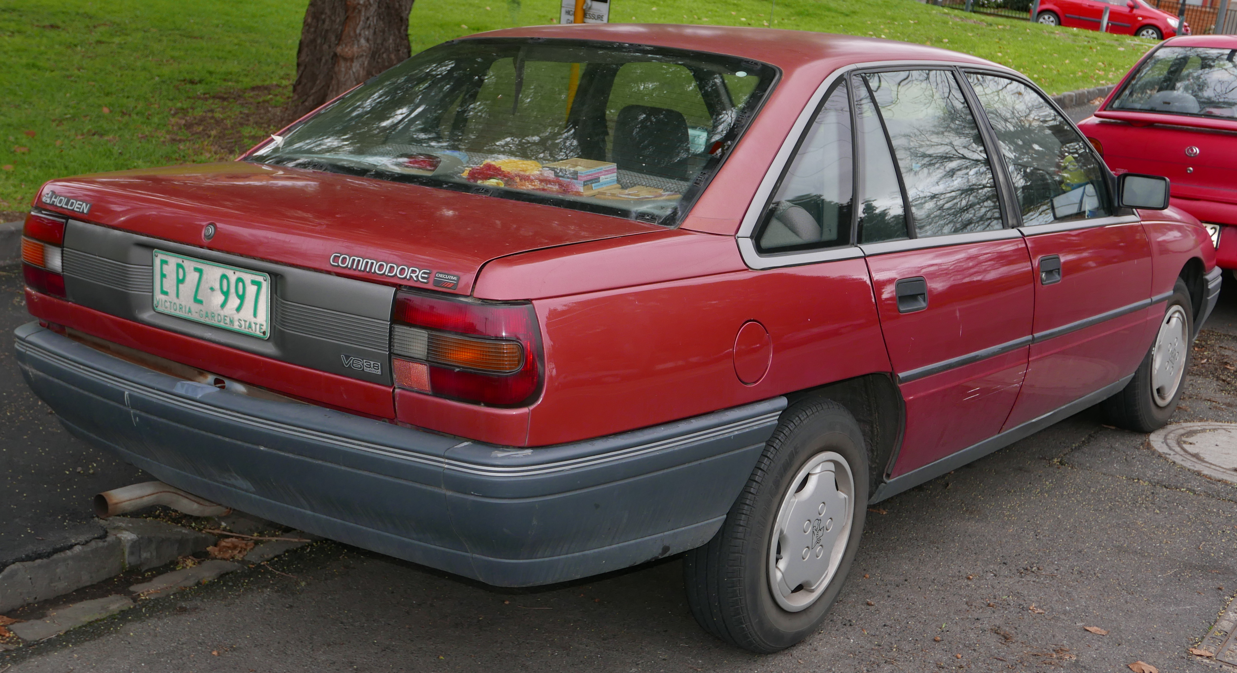 1991 Holden Commodore (VN) Executive sedan. Despite the date discrepancy with the vehicle registration information below, a check of the VIN reveals a build year of 1991 and the styling of the car is representative of a VN model but not one a VP model from 1992. Photographed in Fitzroy North, Victoria, Australia. Vehicle registration enquiry results Jurisdiction Victoria Registration EPZ997 Chassis code 6H8VNK19HML511849 Engine code VH1199702 Compliance date 1991-06 Year of manufacture 1992 (not a typo)